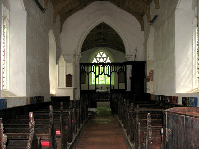 St Margaret's church, Stanfield View east